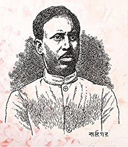 alamohon dash